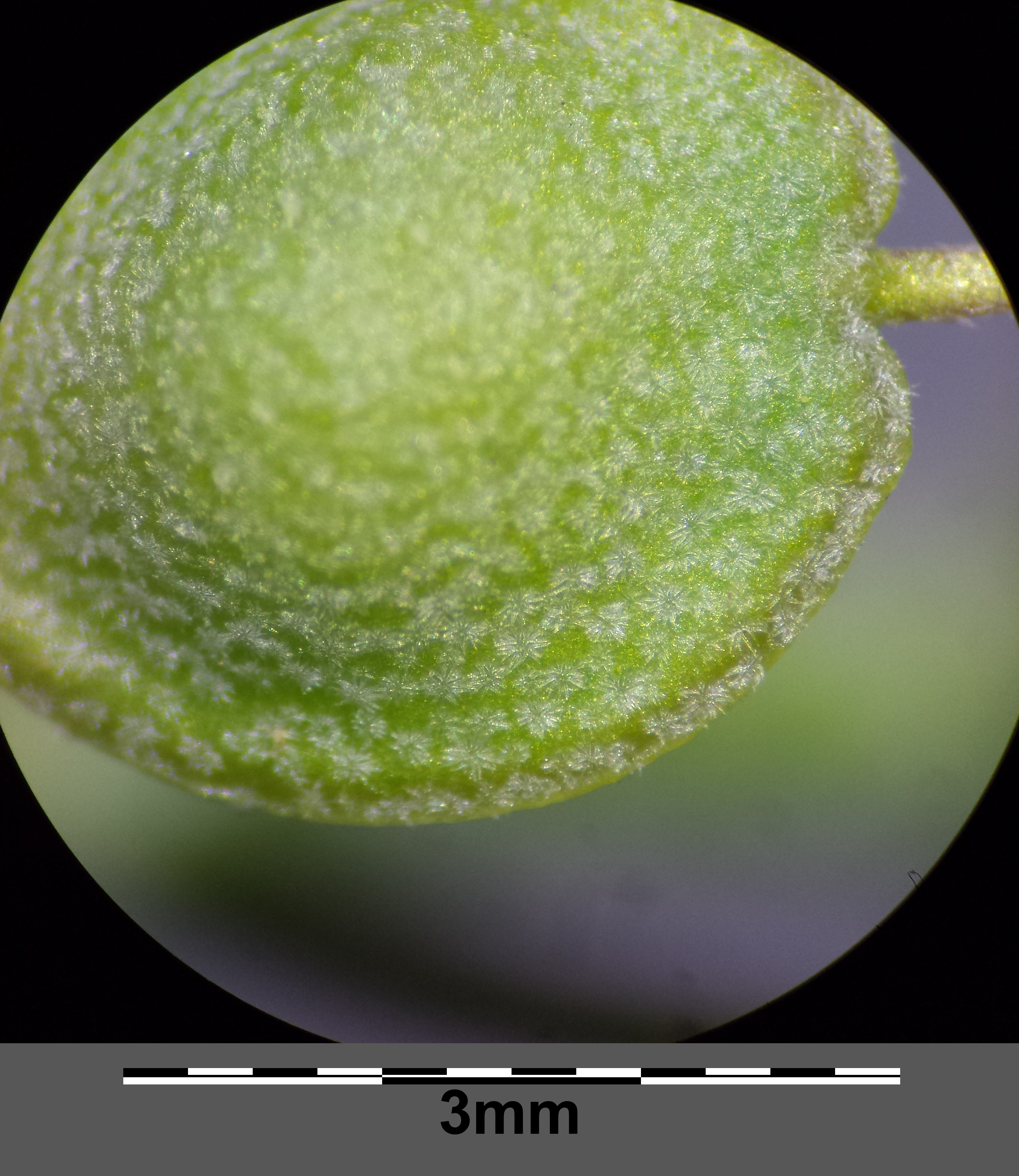 Surface of fruit with stellar hairs Taxonym: Alyssum montanum subsp. gmelinii ss Španiel, Marhold, Thiv, Zozomová-Lihová: Botanical Journal of the Linnean Society Volume 169, Issue 2, pages 378–402, June 2012 Location: Haulesbergen, district Mistelbach, Lower Austria - ca. 200 m a.s.l. Habitat: sandy area